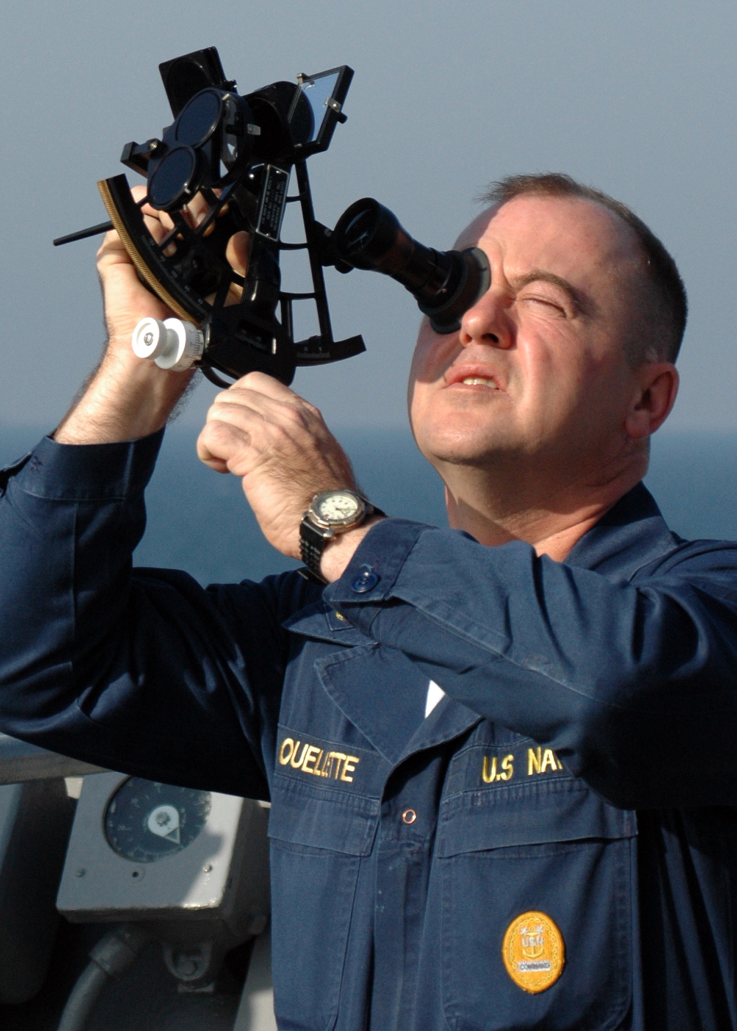 PERSIAN GULF (Jan. 28, 2009) Command Master Chief Don Ouellette uses a sextant aboard the amphibious dock landing ship USS Carter Hall (LSD 50). Carter Hall is deployed as part of the Iwo Jima Expeditionary Strike Group supporting maritime security operations in the U.S. 5th Fleet area of responsibility. (U.S. Navy photo by Mass Communication Specialist 2nd Class Flordeliz Valerio/Released)